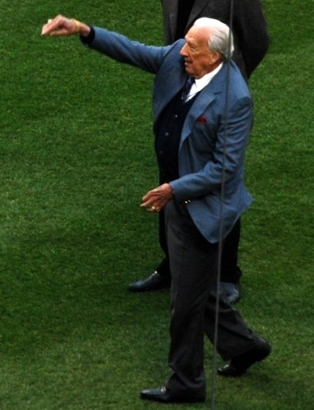 Hall of Famer Ralph Kiner throws out ceremonial first pitch at Citi Field, 2011. This file has been extracted from another file: Ralph Kiner throws out first pitch.jpg